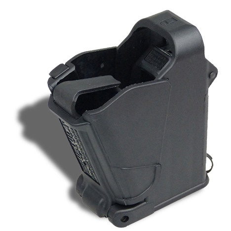 The UpLULA™ is a military-grade universal pistol magazine loader and unloader designed for loading and unloading virtually all* 9mm Luger up to .45ACP magazines, single and double stack and 1911’s of all manufacturers. It will also load most .380ACP double-stack mags. The UpLULA™ loader does it all easily, reliably, and painlessly! Loads all* 9mm Luger, .357 Sig, 10mm, .40, and .45ACP cal. single and double stack magazines., including 1911 mags, of all manufacturer, and also loads most .380ACP double-stack mags. One size fits all. No inserts, spacers or adjustments at all ! (One SKU) Easy loading; the rounds just drop in with no fingers pushing or pressing them. No more pain ! Load hundreds of rounds painlessly. Protects your fingers and mags. Up to one round per sec. loading rate. 1/3 the time loading several mags compared with thumb loading. Fits in hand and pocket, weighs only 72 grams (2.55 Ounce). Highly durable. Loads the following mags: Astra, Auto Ordnance, Barak, Beretta, Browning, Bul, Colt, CZ, EAA, FN, Glock, HK, Hi-Point, High Standard, Jericho, Kahr, Kel-Tec, Kimber, Les Baer, Llama, Luger, Magnum Research, Para Ordnance, Phoenix Arms, Ruger, Sigma, Sig/Sauer, S&W, Springfield Armory, Star, Steyr, Taurus, Vector, Walther, and more.